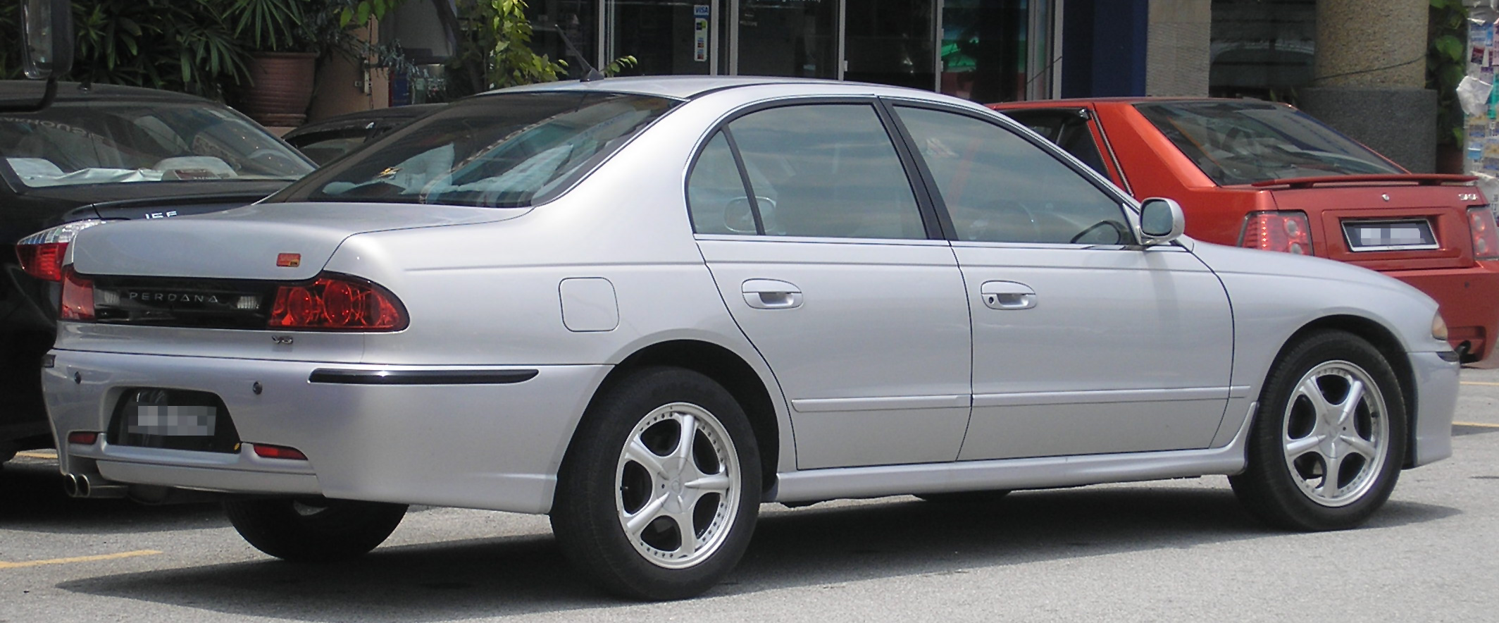 Rear-side shot of a first generation, second facelift Proton Perdana (V6), in Serdang, Selangor, Malaysia.